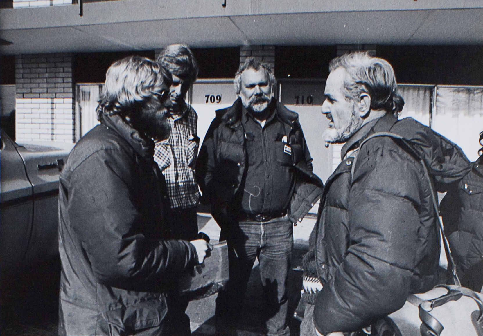 Image of Phillip Glasier with colleagues on a Middle East trip in 1963